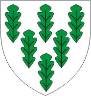 Old coat of arms of Tamsalu Parish (1993–2005).